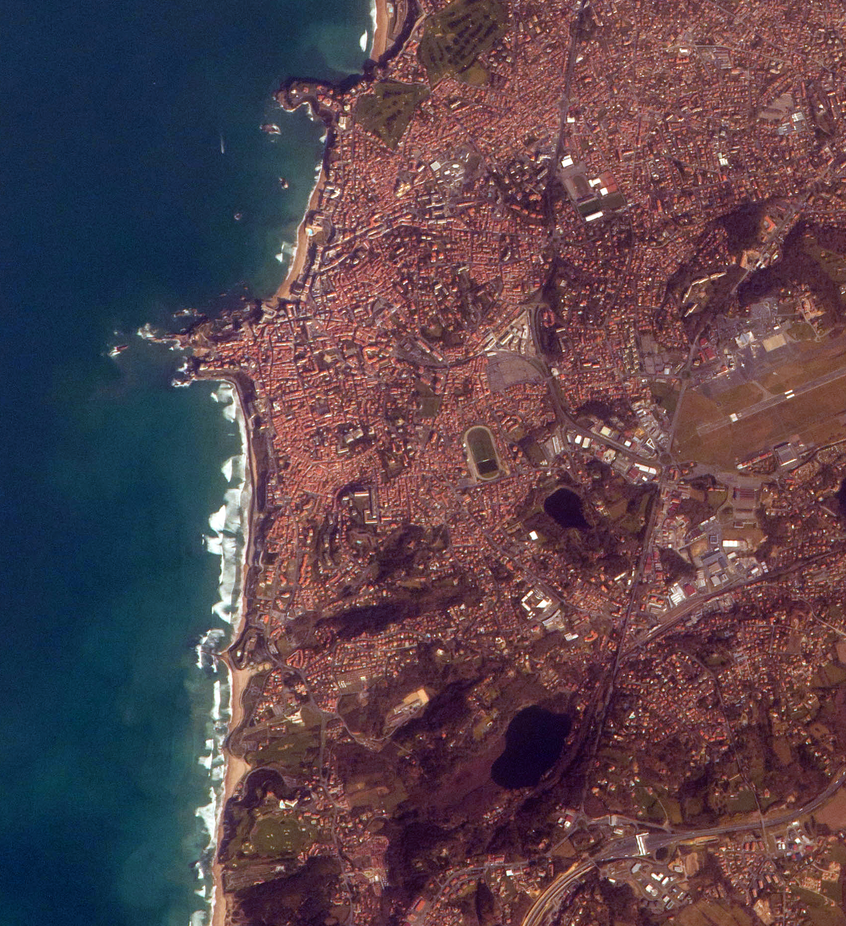 Biarritz, Labourd, Basque Country